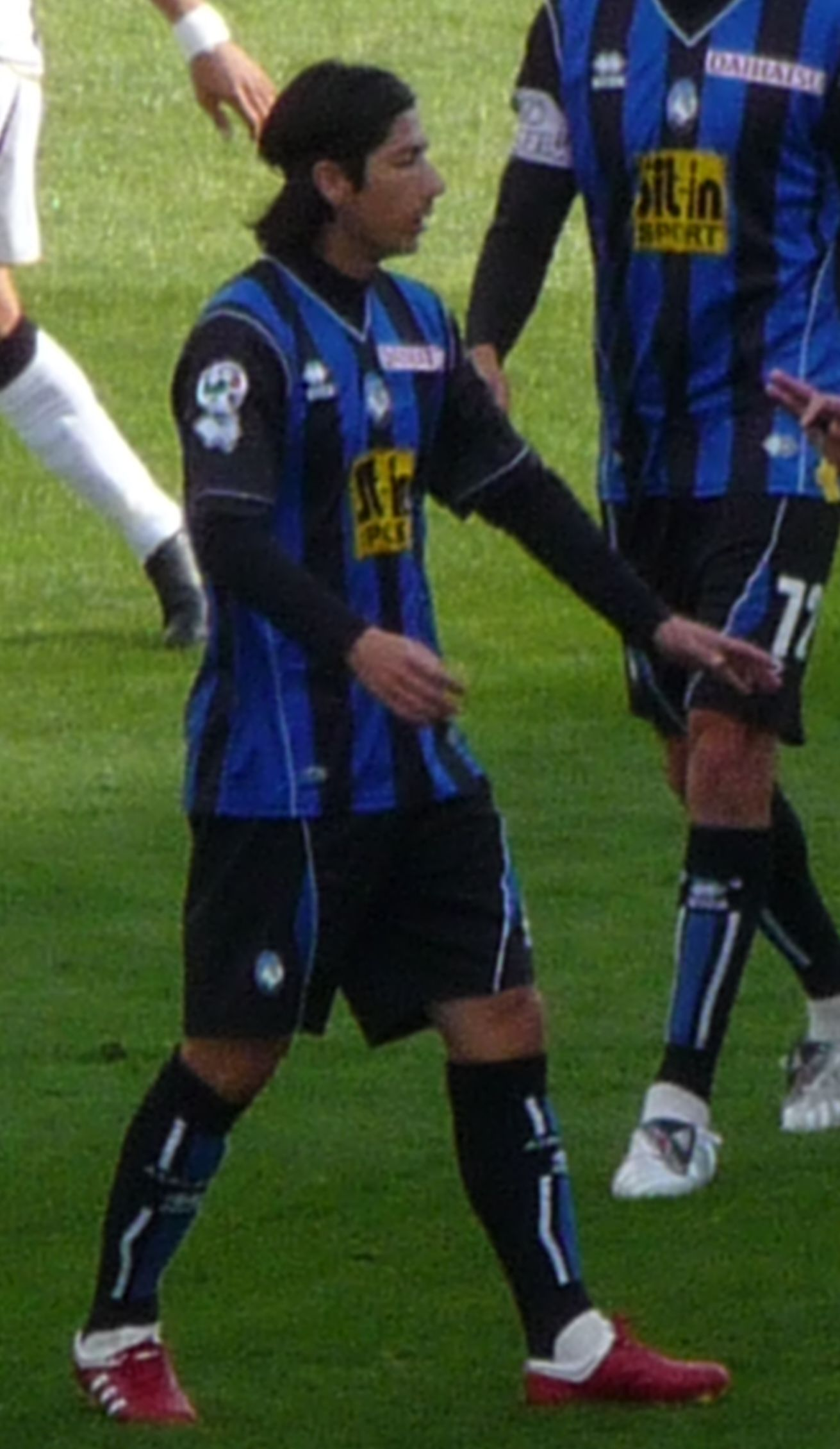 Udinese - Atalanta 1-3 18/10/2009